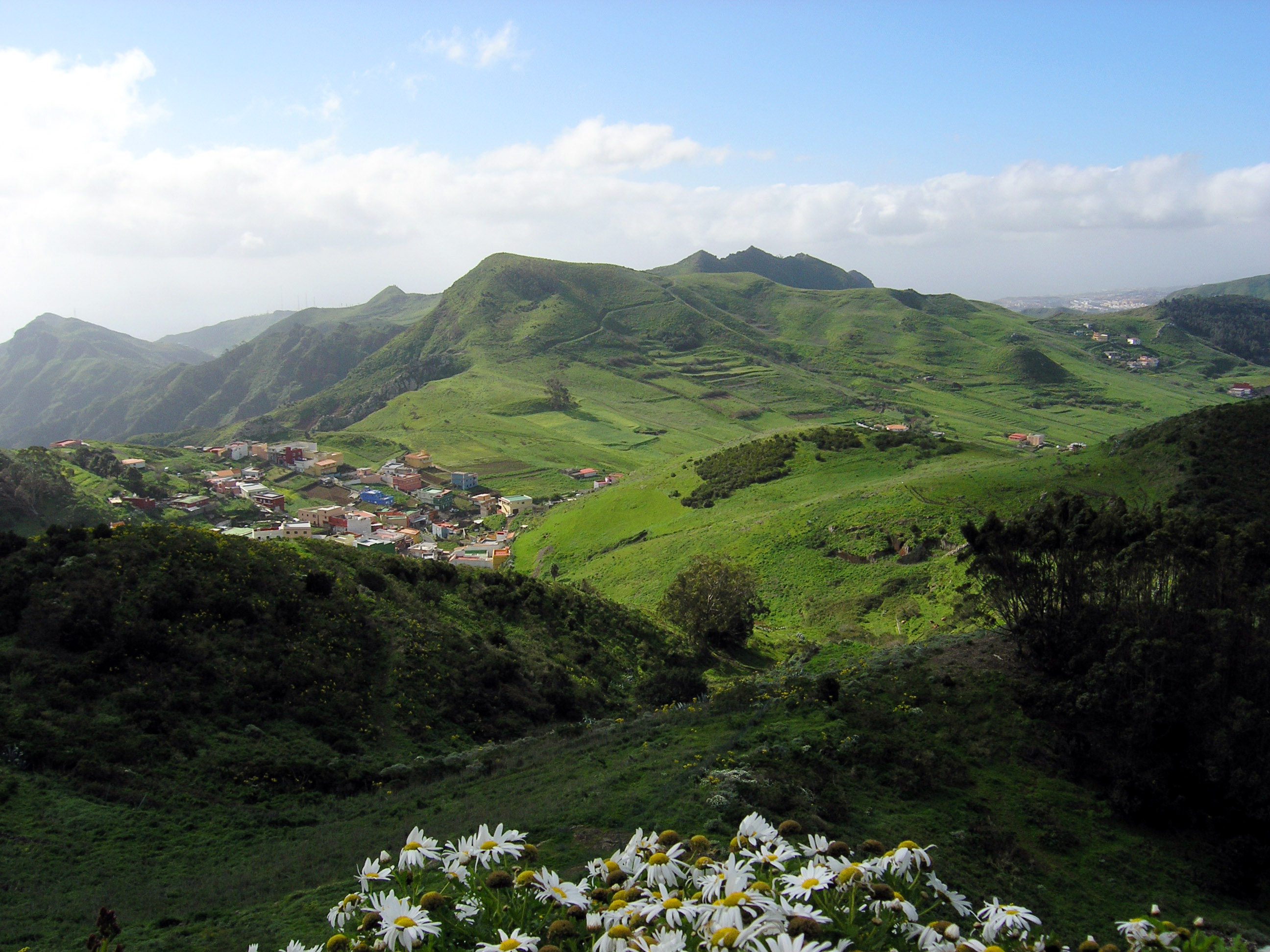 View on the Anaga mountains, Tenerife Canary Islands, Spain.